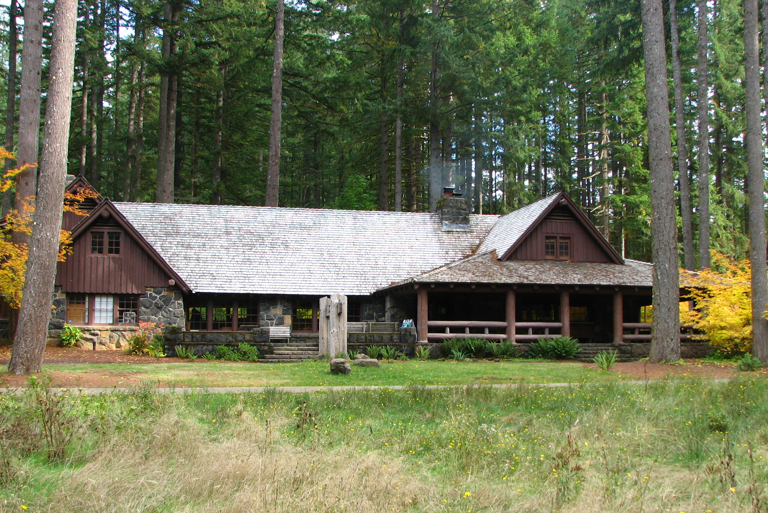 The Lodge at Silver Falls State Park, Oregon, United States, lies within the Silver Falls State Park Concession Building Area historic district.